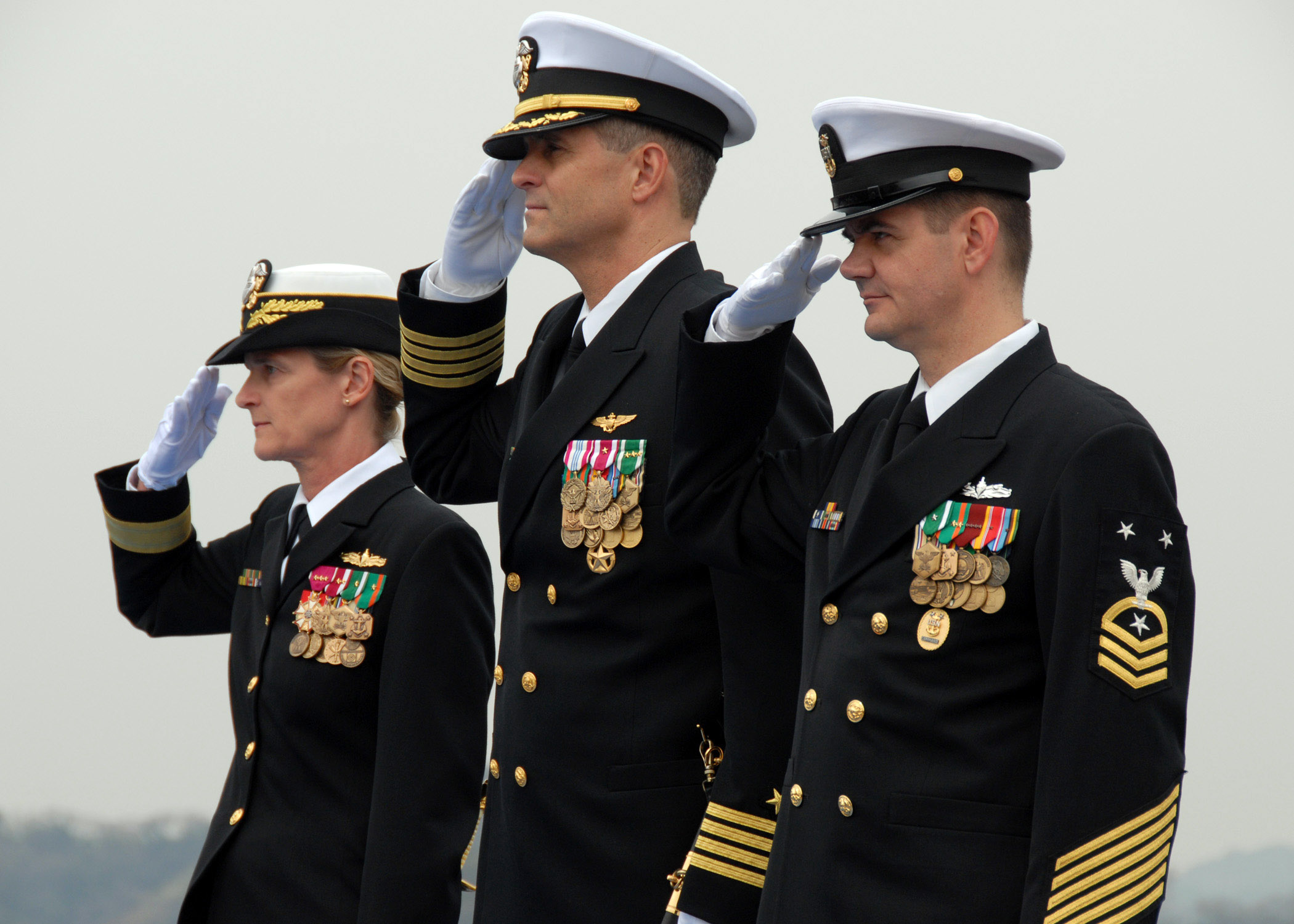 YOKOSUKA, Japan (March 27, 2007) - Commander, Expeditionary Strike Group 7/Task Force 76, Rear Adm. Carol Pottenger, Capt. David A. Lausman, and Command Master Chief John Becker render honors to the color guard during the opening of the change of command ceremony aboard amphibious command ship USS Blue Ridge (LCC 19). Lausman relieved Capt. Jeff Bartkoski as the commanding officer aboard Blue Ridge. The change of command ceremony is a time-honored tradition that formally restates to the officers and enlisted personnel of the command the continuity of the authority of command. U.S. Navy photo by Mass Communication Specialist 2nd Class Tucker M. Yates (RELEASED)